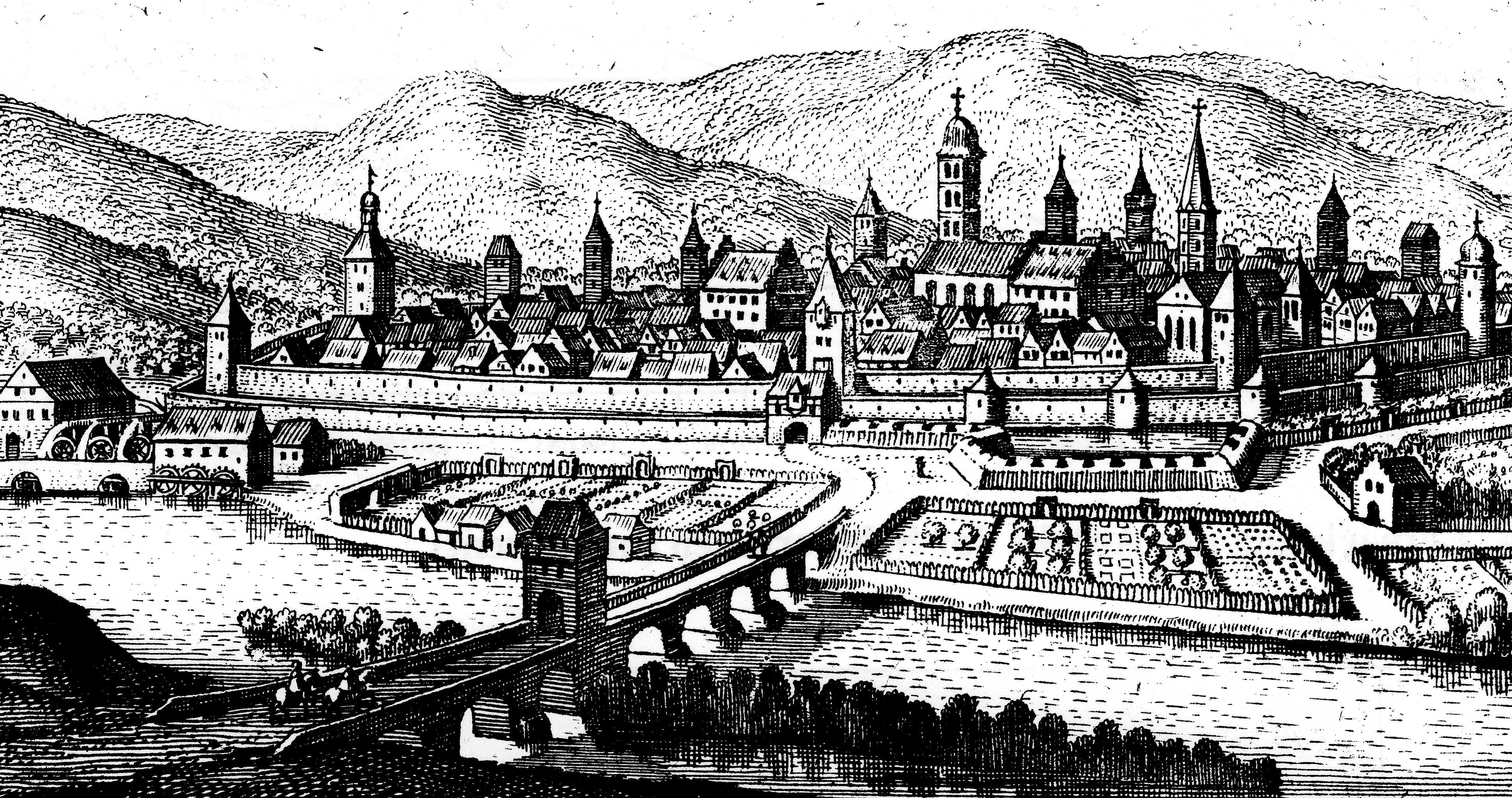 This is a scan of the historical document: Title: Hammelburg - Topographia Hassiae language: german